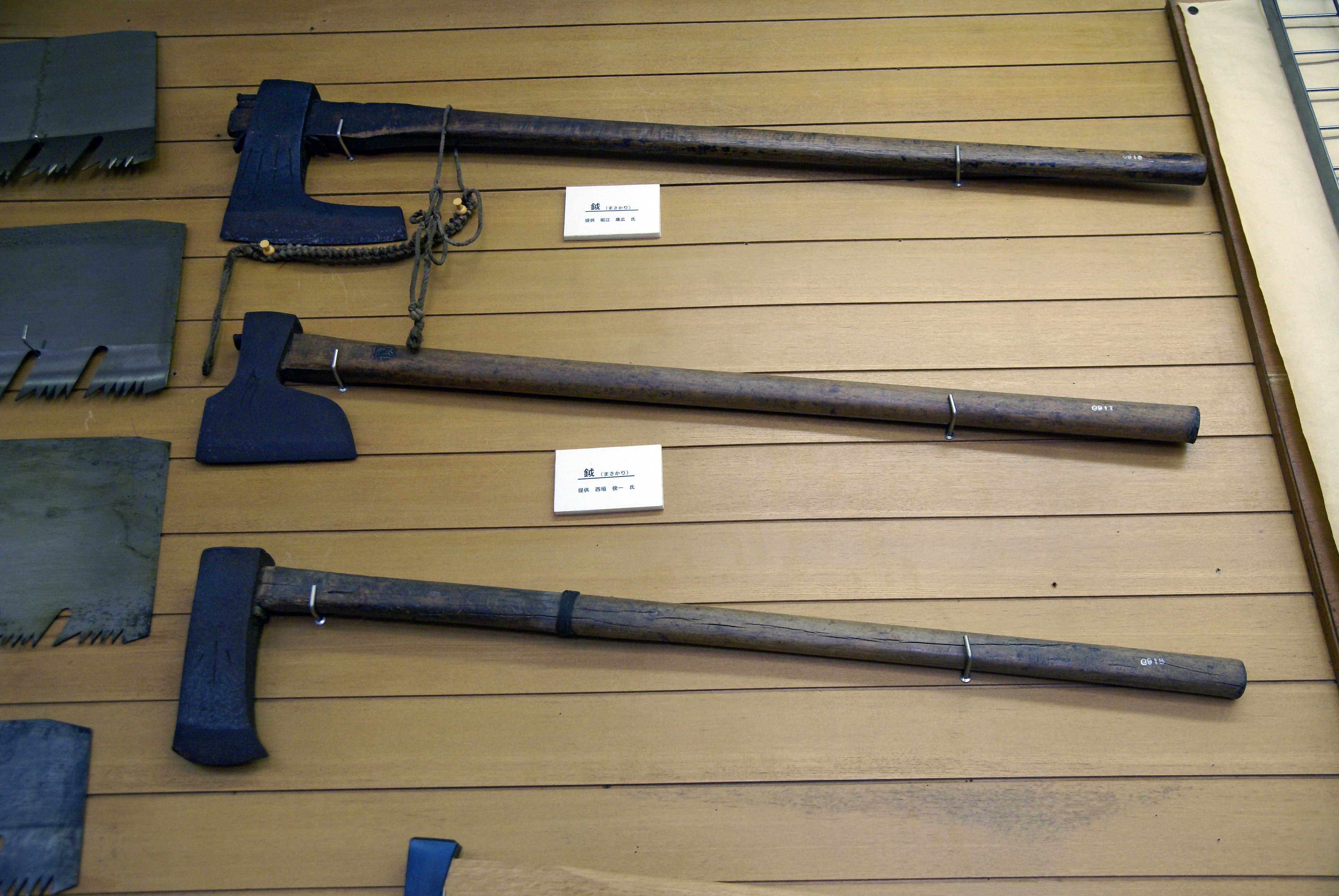 Miki City Hardware Museum in Miki, Hyogo prefecture, Japan